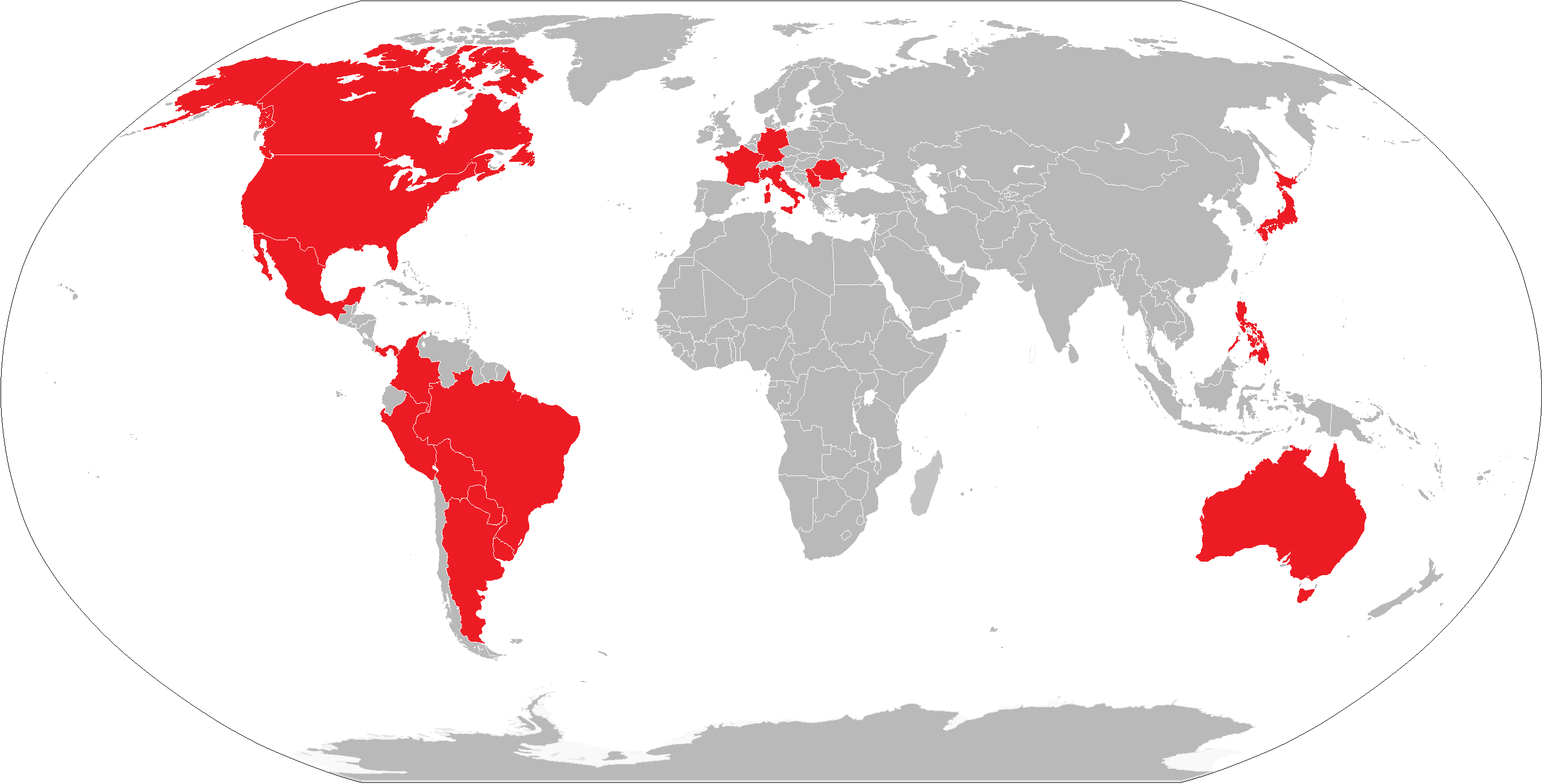 Map aobut the presence of the order DeMolay in the World.